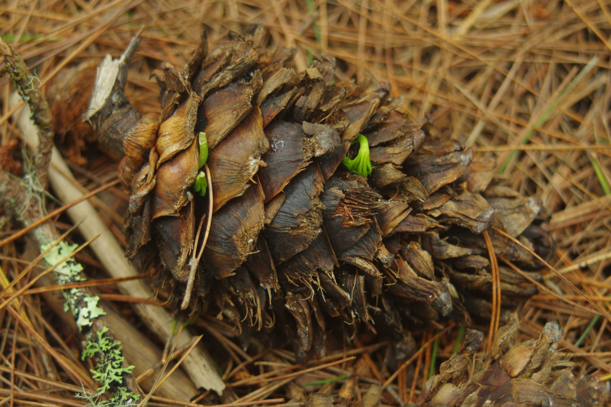 Taiwan white pine (Pinus morrisonicola)